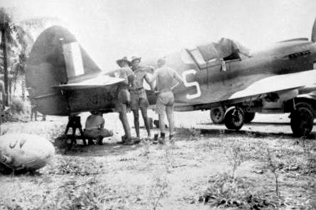 AWM Caption: Milne Bay, Papua New Guinea, c. August 1942. Four airmen, none identified, work on a Kittyhawk aircraft of 75 Squadron RAAF. Named 'Polly', and serially numbered A29-133, it was one of many flown by their fighter pilots during the battle of Milne Bay. Note that the aircraft's rear (left) has been supported by a wooden trestle to enable the ground crew to effect a tail wheel change. This aircraft was later recovered and, after restoration, acquired by the Australian War Memorial where it is now held in the aircraft collection.